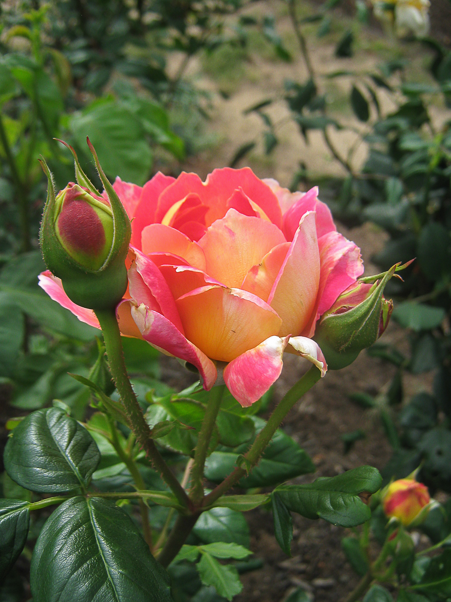 Rose 'Condesa de Sástago', Hybrid Tea by Pedro Dot 1930; Photographed at the Nieuwesteeg Heritage Rose Garden, Maddingley Park, Bacchus Marsh, Victoria